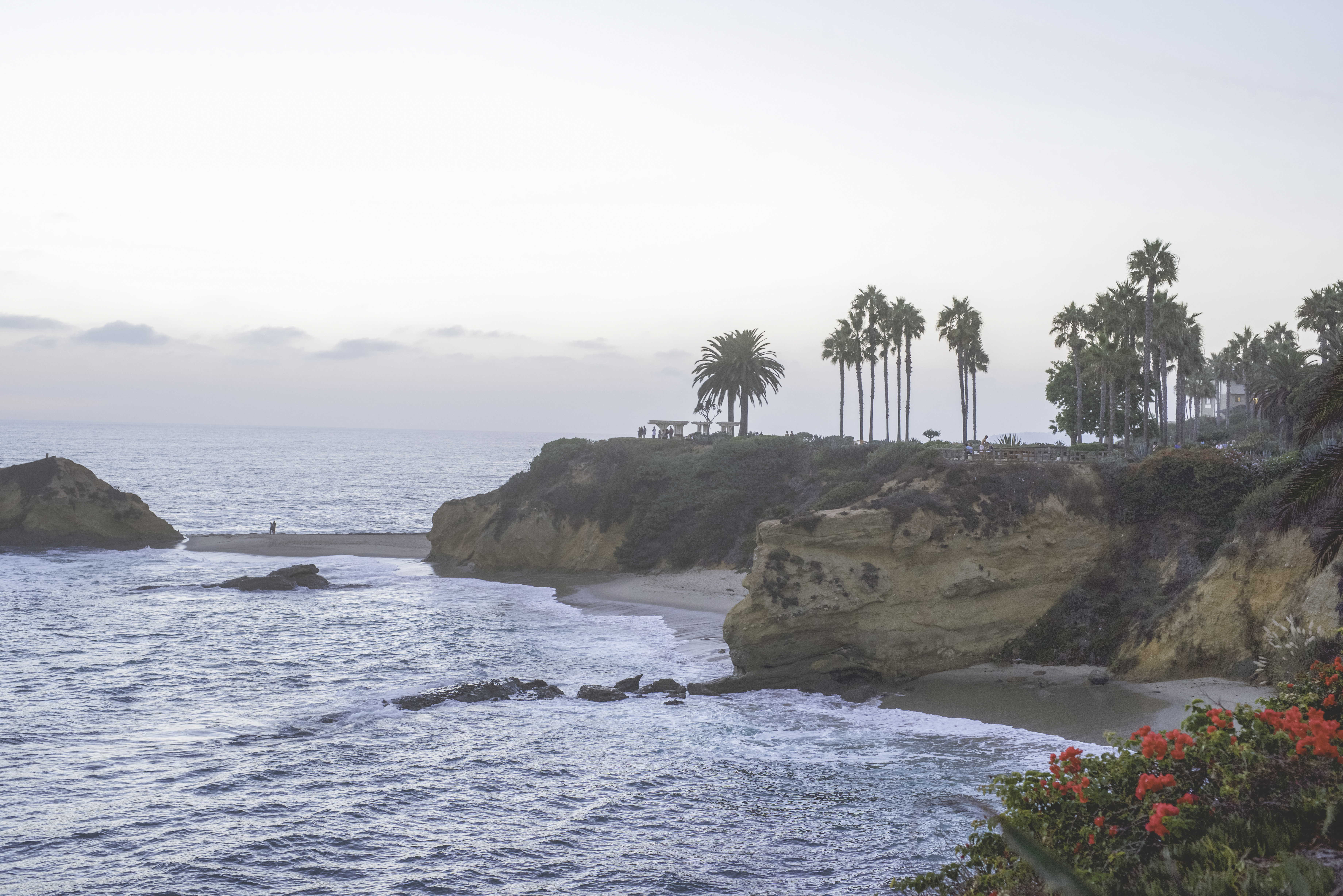 A far view of Goff Cove from Laguna Beach.